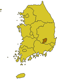 Map of Daegu, South Korea From the german wikipedia, created by User:Kokiri